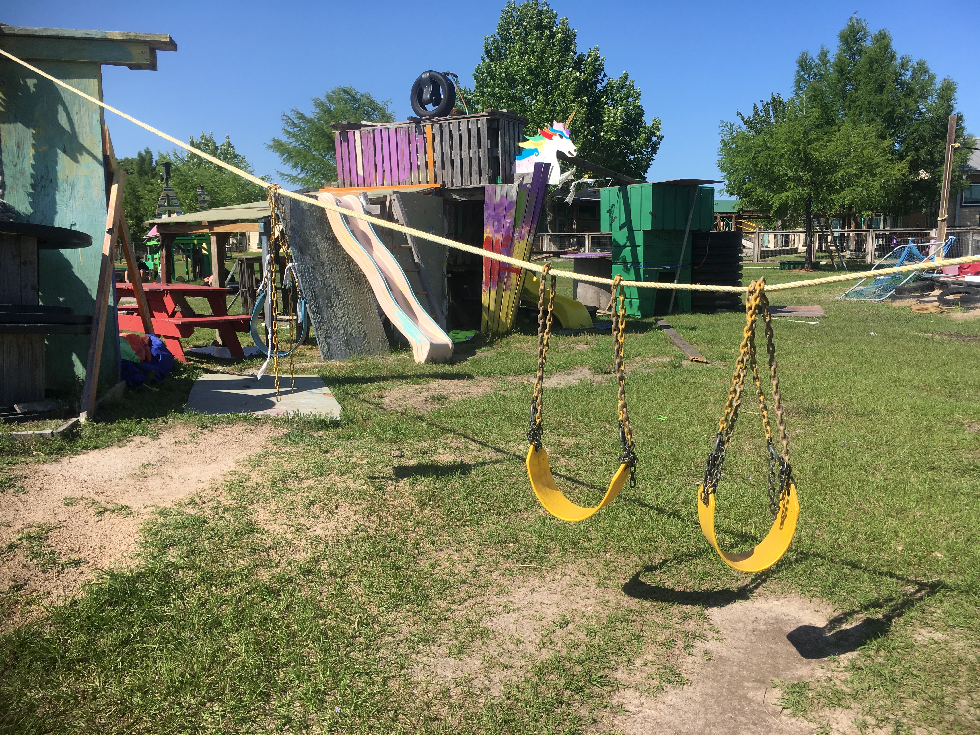 Site based adventure playground in Houston, Texas